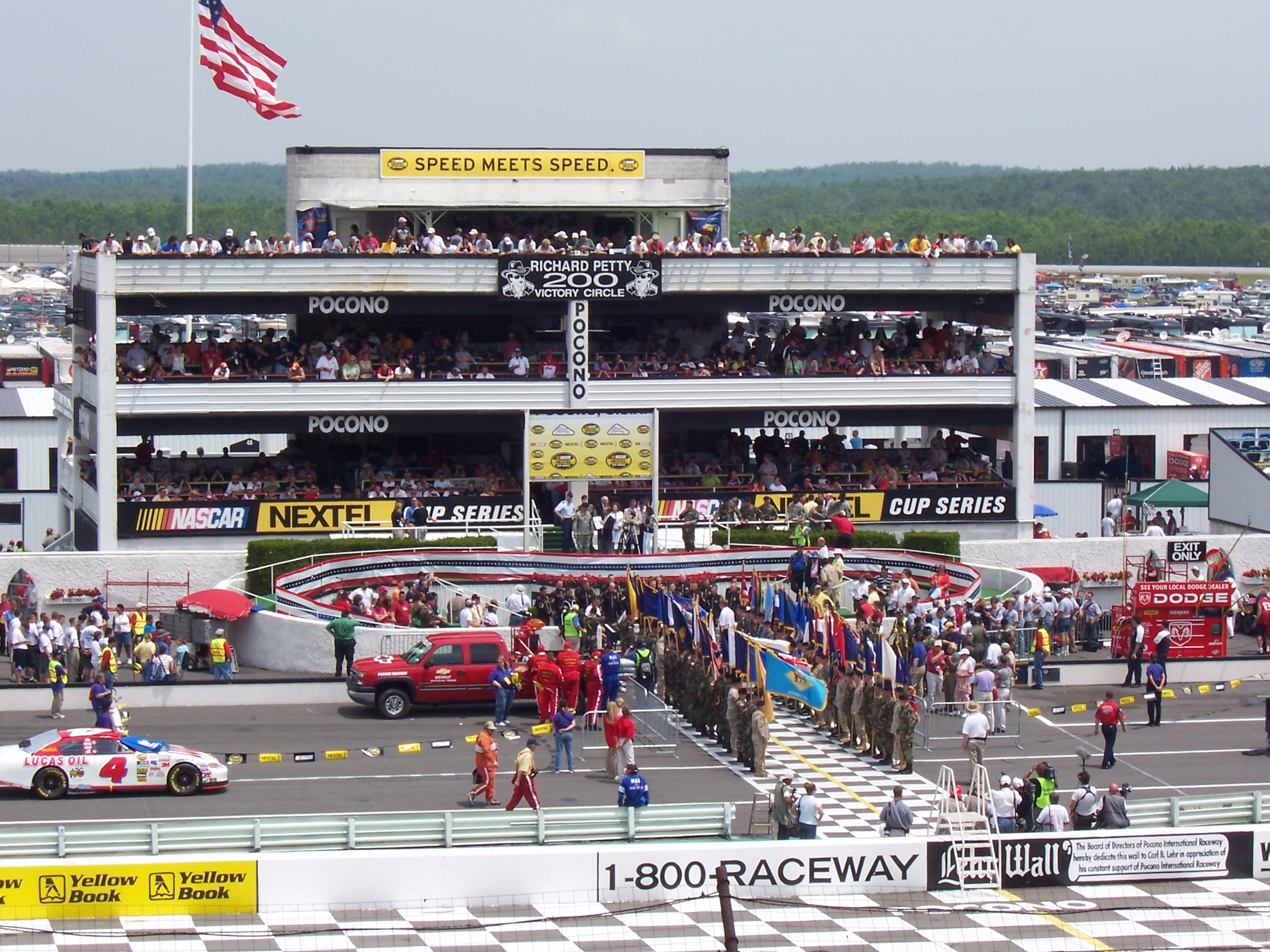 Picture taken by myself with a KODAK Easyshare CX7530 on June 12, 2005. Picture shows the prerace ceremonies at victory lane before the Pocono 500.